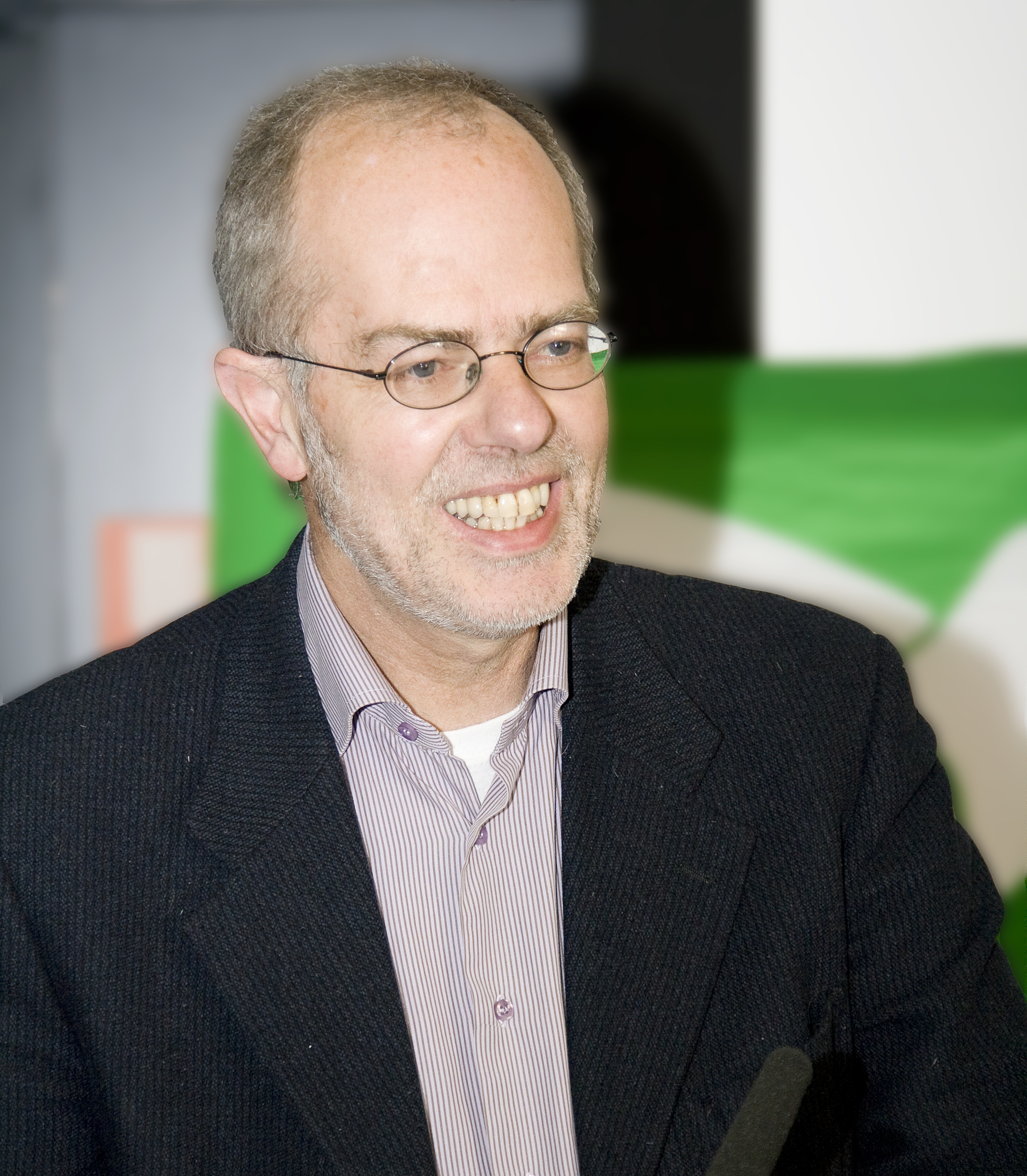 Hans Heiss